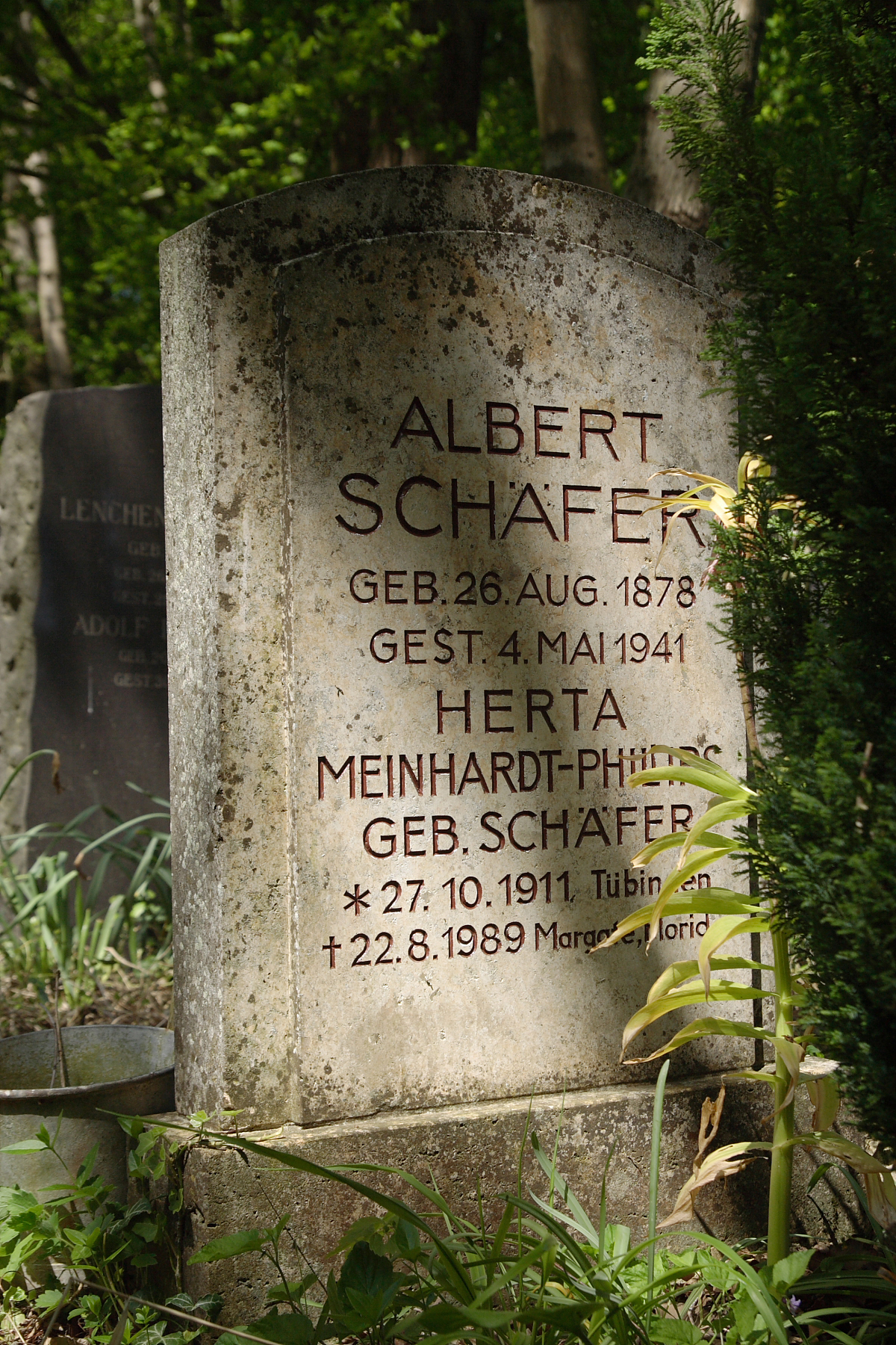 The enclosed Jewish cemetery Wankheim (1789-1941) is situated at a woodland edge outside the community Wankheim and ca. 3,6 km from center Tübingen. The last gravestone is that for Albert Schäfer, who was deported to KZ Dachau after the November events of the Kristallnacht. His death was in consequence of the treatment there. In 1880 the Jewish community of Tübingen and Reutlingen took over the cemetery. While old gravestones are simple sandstone with Hebrew typeface, newer steles are in Latin showing prosperity and assimilation to their Christian environment. The cemetery was heavily vandalized in 1939, yet again in 1950, 1986 an on New Years Eve 1990. A huge memorial stone, placed by the holocaust survivor Victor Marx in 1949, reminded of the 14 Tübingen victims, who were murdered by Nazis; amongst them his mother Blanda, his wife Marga and his eight years old daughter Ruth.